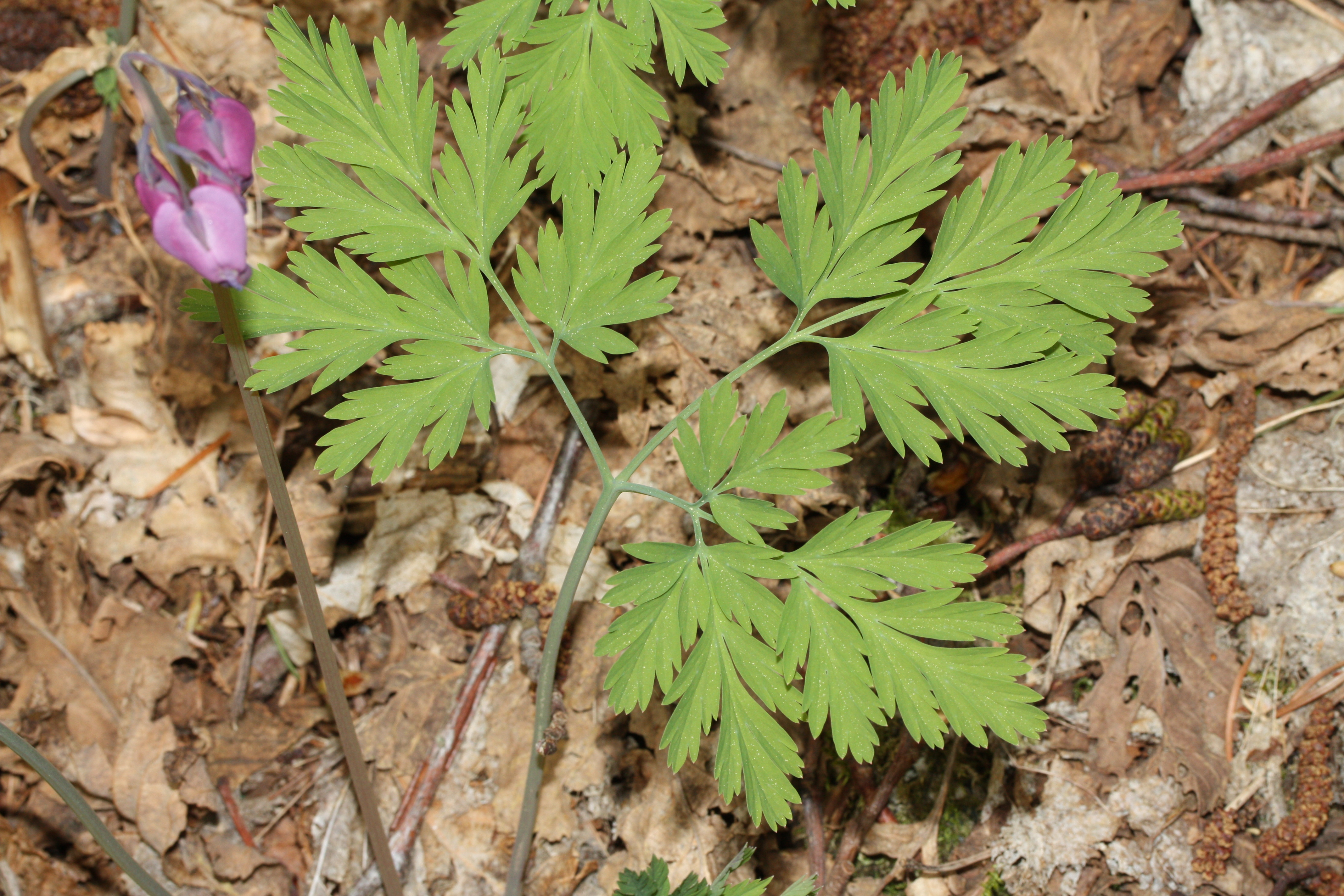 Pacific Bleeding Heart; auth. (Haw.) Walp.